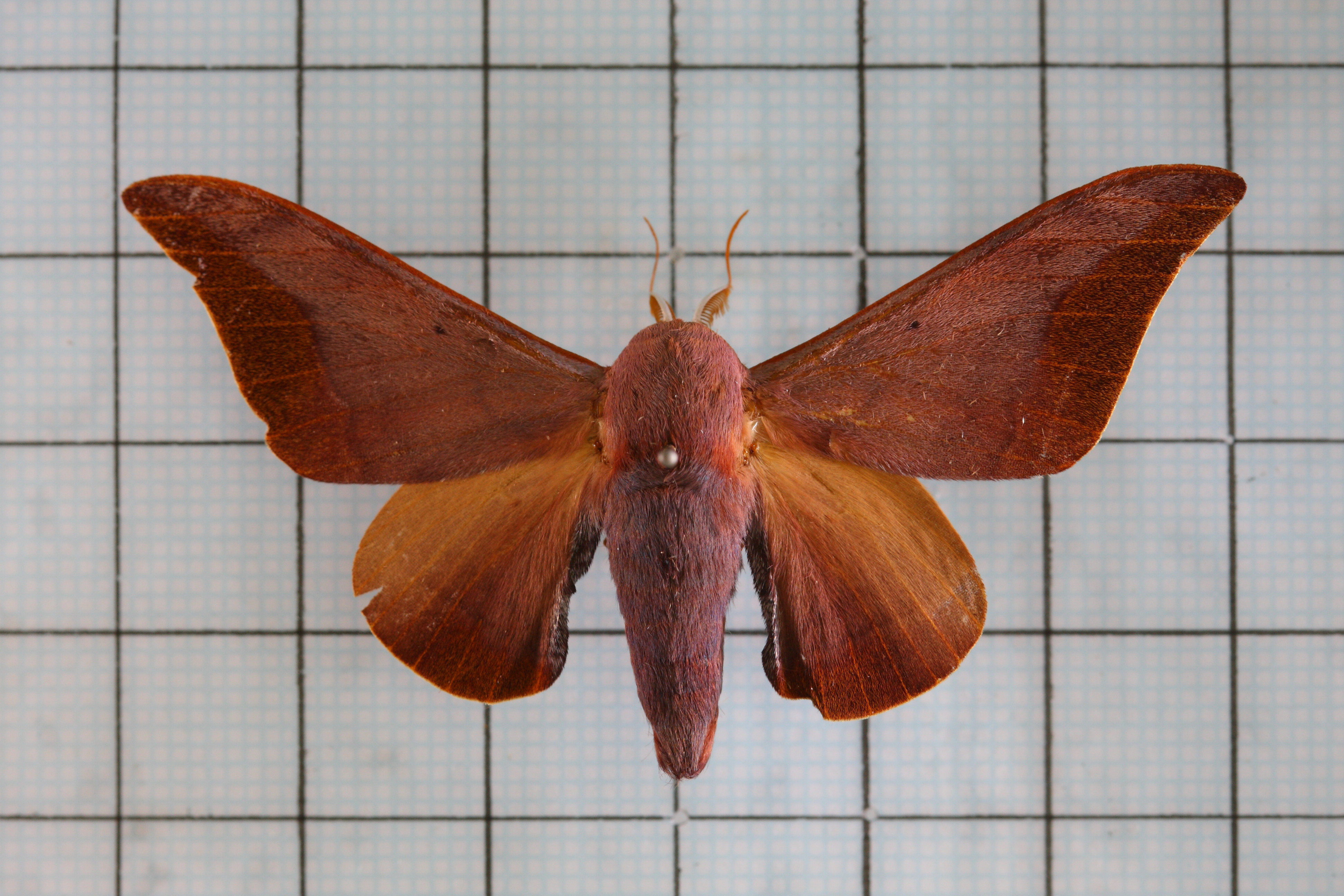 Mustilia geronticaWest,1932 鉤翅赭蠶蛾 認識台灣的昆蟲 9 :P.18 鞍2:P.72,42-9